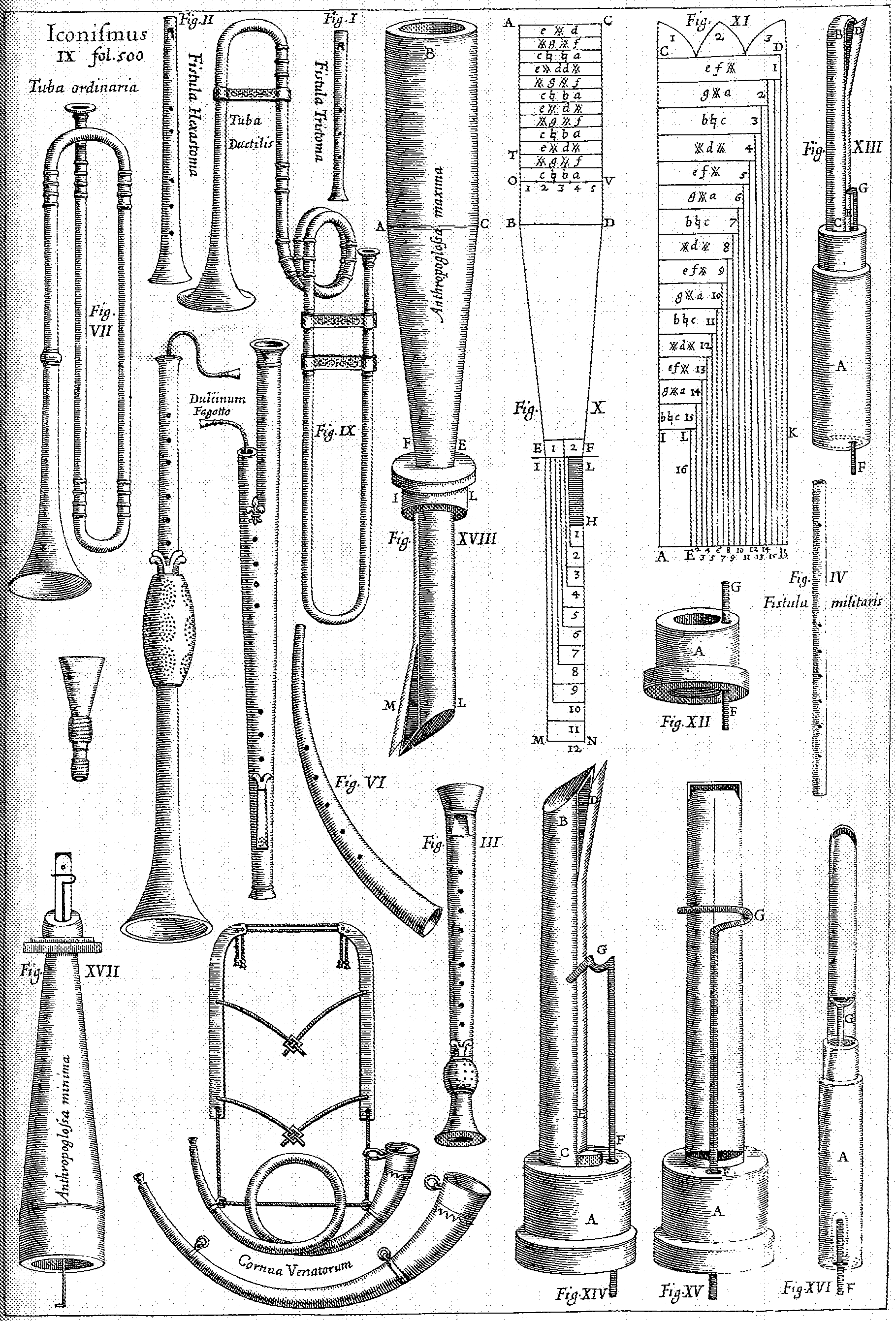 Wind instruments of 17th century Europe, labeled in Latin.